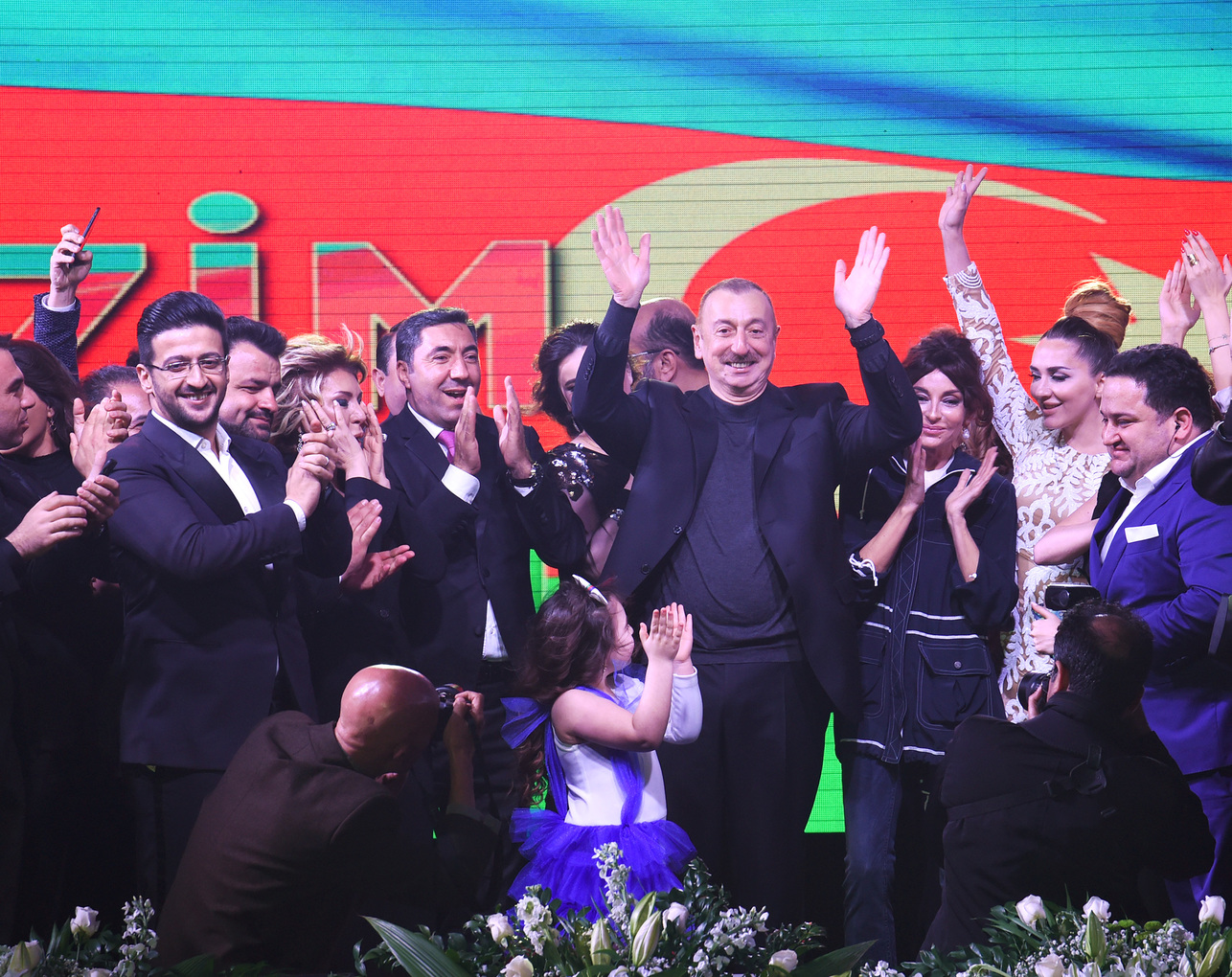 Concert dedicated to Ilham Aliyev`s landslide victory in presidential election was held in Baku